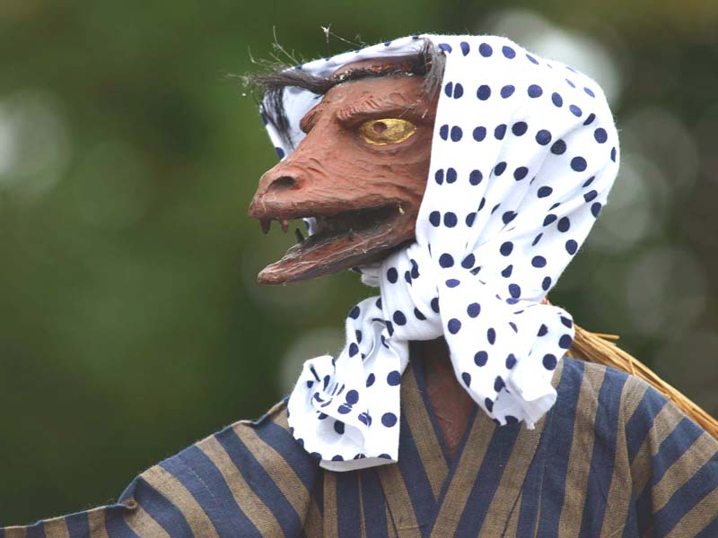 Portrait of one of the kappa in front of JR Tono Station in Iwate Prefecture, Japan